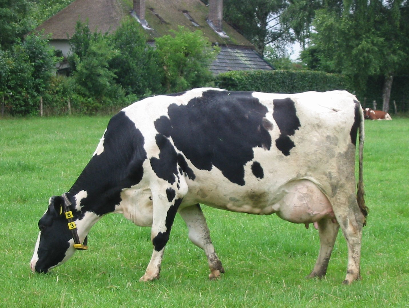 Holstein Friesian cow in meadow near Gorssel.